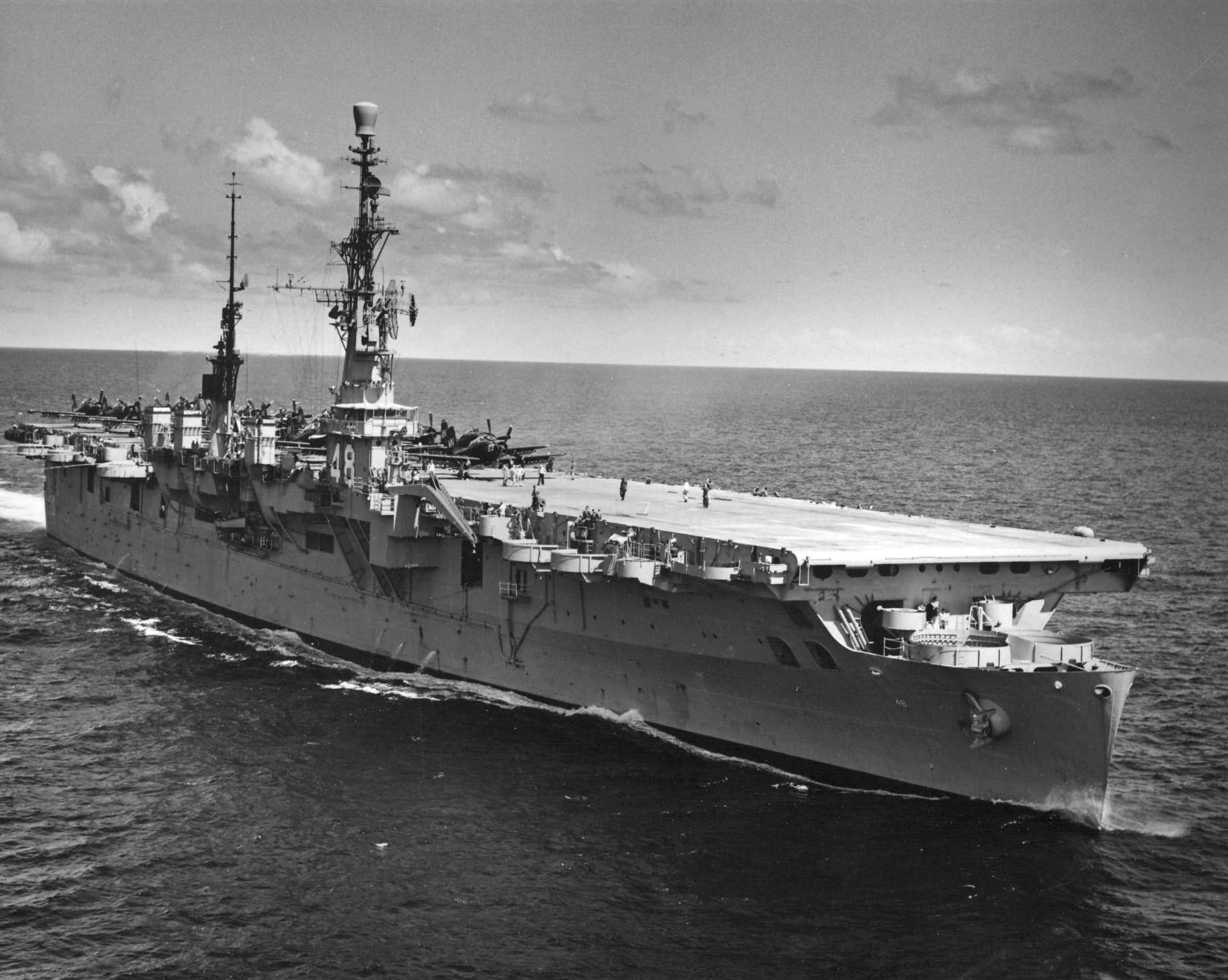 The U.S. Navy light aircraft carrier USS Saipan (CVL-48) underway, circa in the mid-1950s. On deck are Douglas AD-5 Skyraiders of Marine Attack Squadron VMA-333 "Fighting Shamrocks".